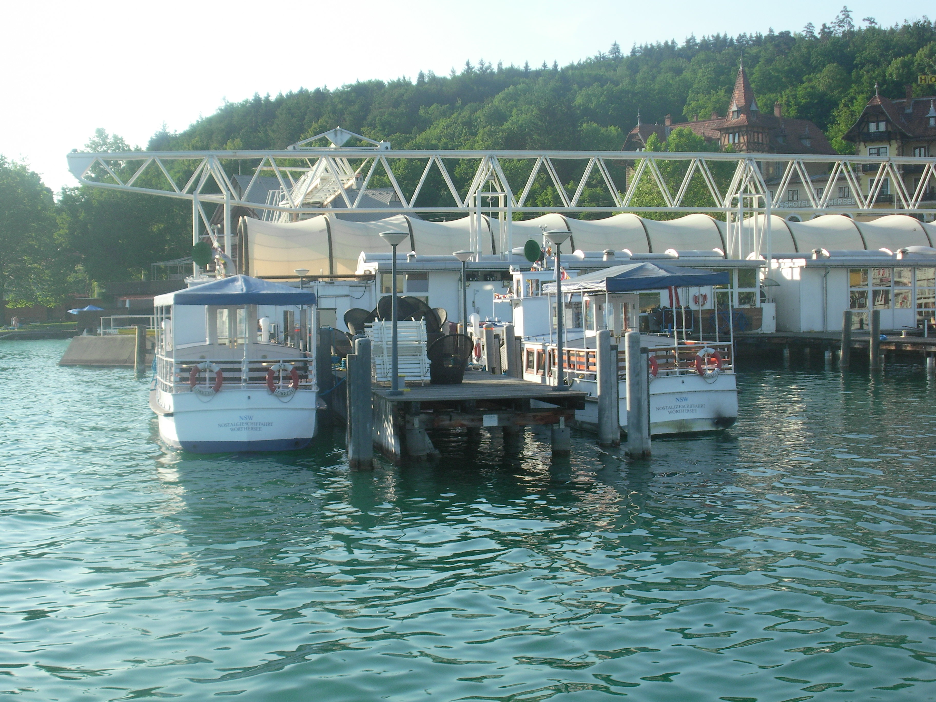 Loretto und Lorelei in der Werft